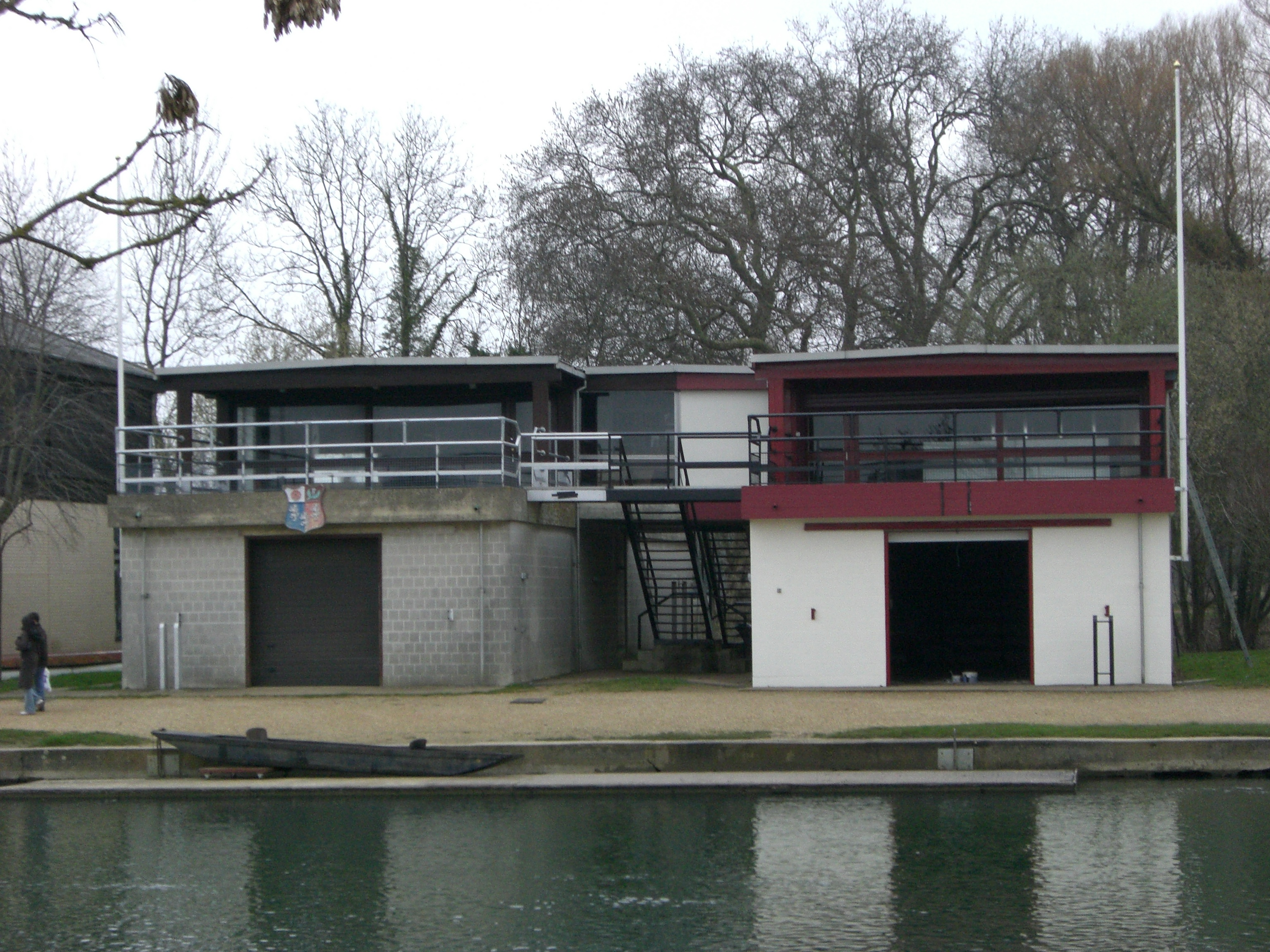 Boathouse on the River Thames, just south of Folly Bridge in Oxford. Used by (from left to right) Pembroke College and another unidentified college.